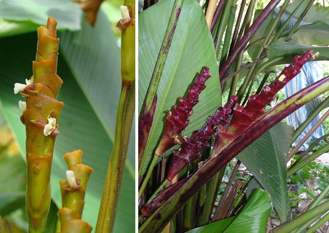 Dick Culbert: Calathea lutea is a variable species. Here it shows white (instead of yellow) flowers on the left, and red stems and bracts in the Columbian example on the right.